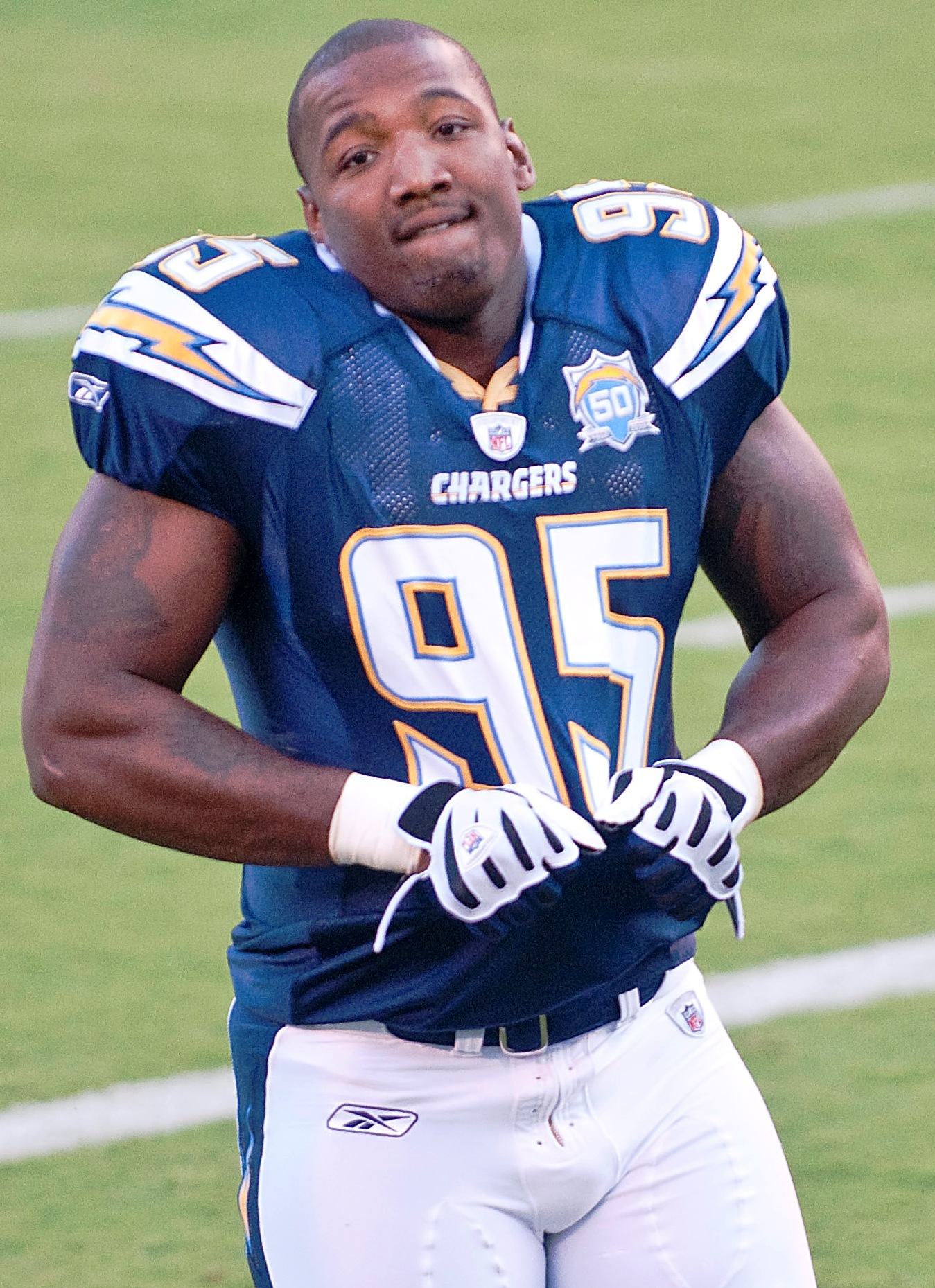 San Diego Chargers linebacker Shaun Phillips during the preseason game against the 49ers on September 4, 2009.